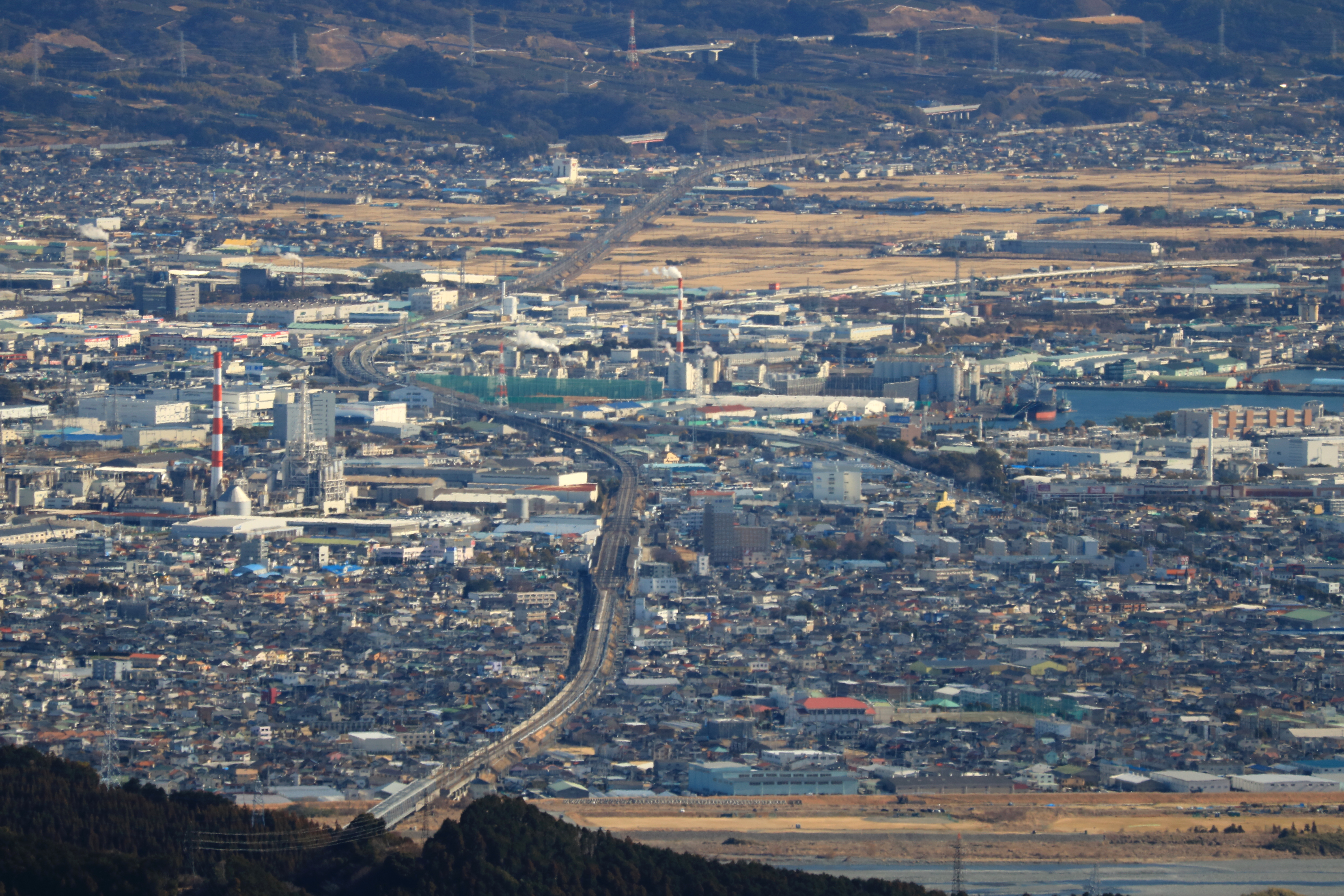 Shin-Fuji Station on Tokaido Shinkansen seen from Mount Hamaishi in Fuji, Shizuoka Prefecture, Japan. Canon EOS Kiss X8i